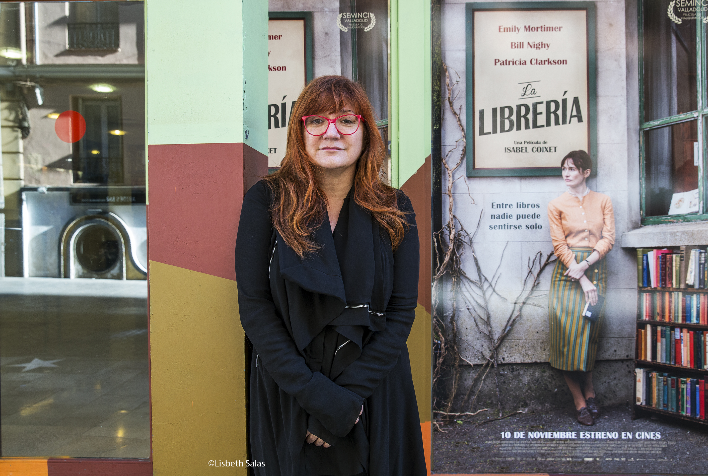 Isabel Coixet, director of the film The bookshop